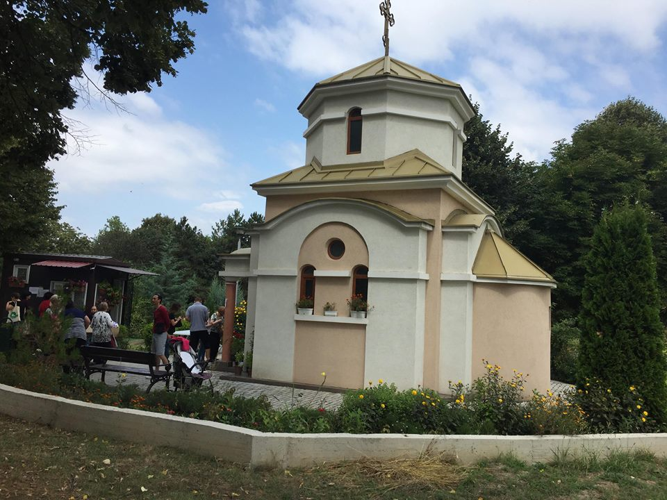 great virgin